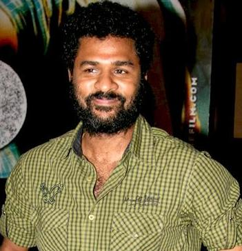 Indian actor Prabhu Deva promotes "Wanted"